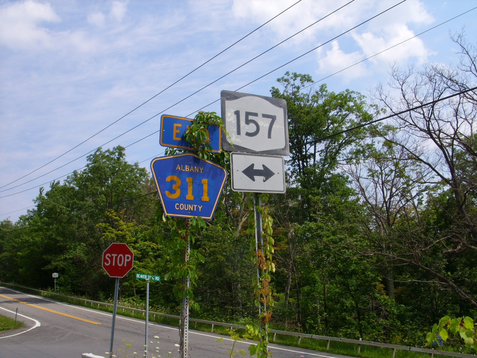 South End of Albany County 311. There are a number of numbers under the '311'